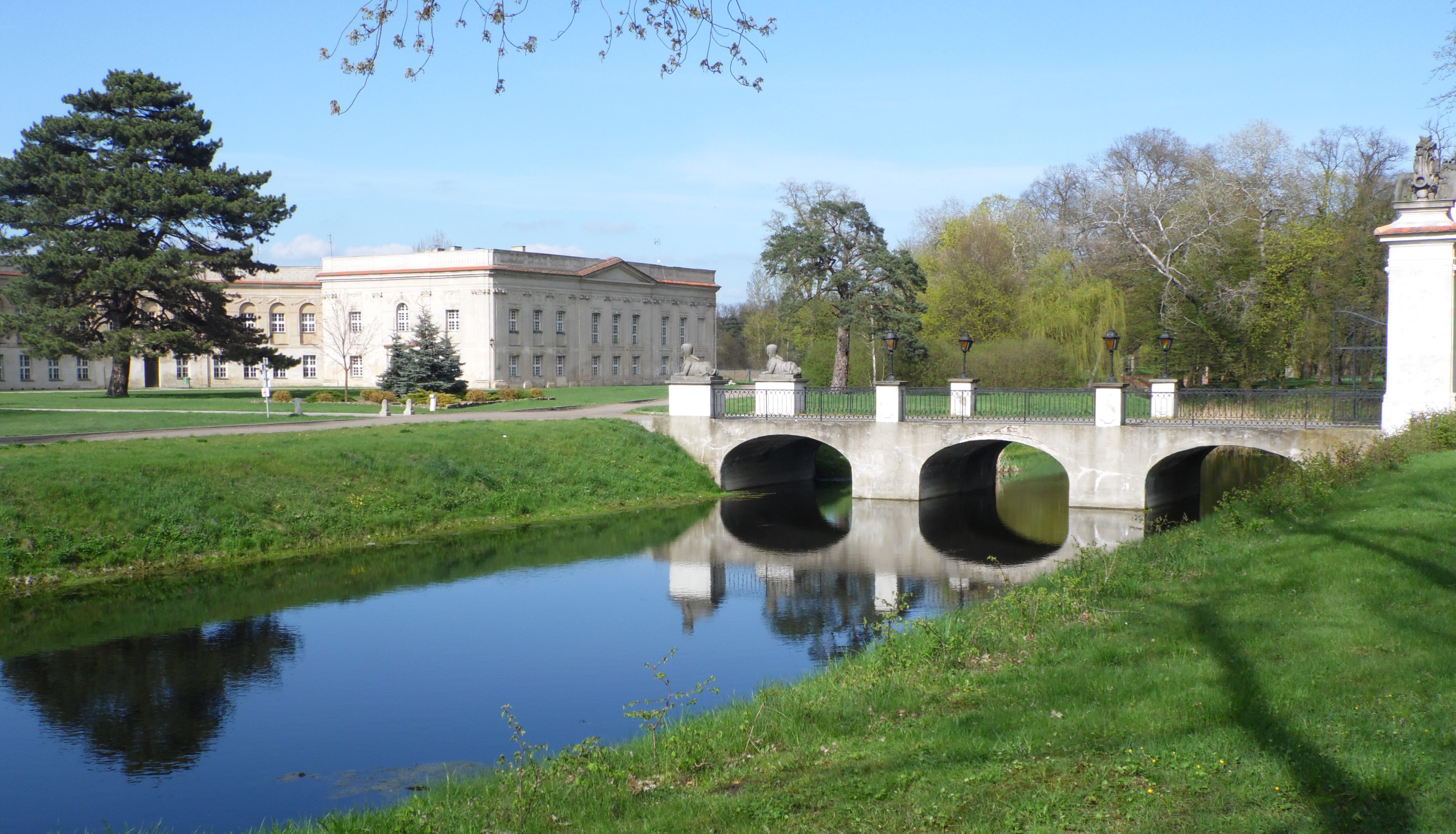 Das Schloss des siebzehnten und achtzehnten, zwanzigsten Jahrhunderts Brücke mit Pylonen, Reiten - Rydzyna / Grundstück. Leszno / Provinz. Greater Poland / Polen